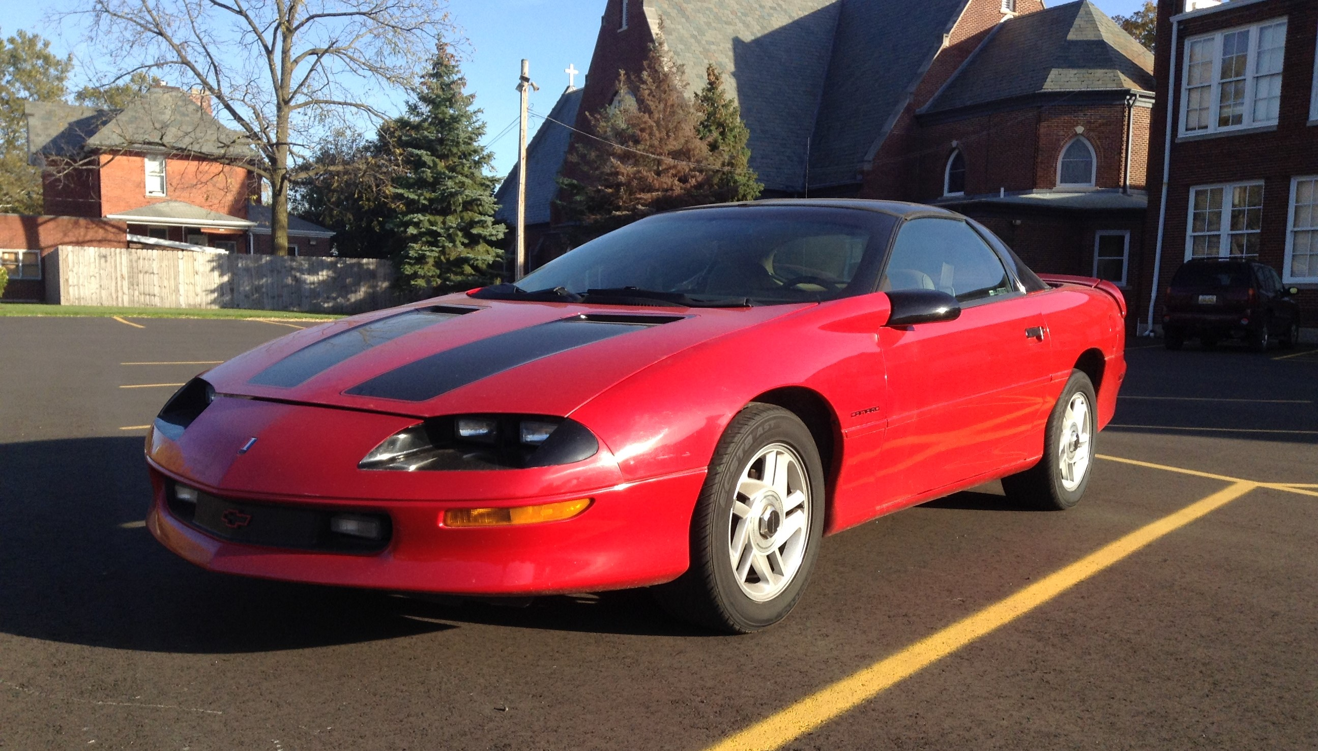 1994 Chevrolet Camaro RS